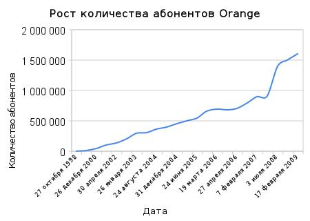 Orange Moldova - number of subscribers